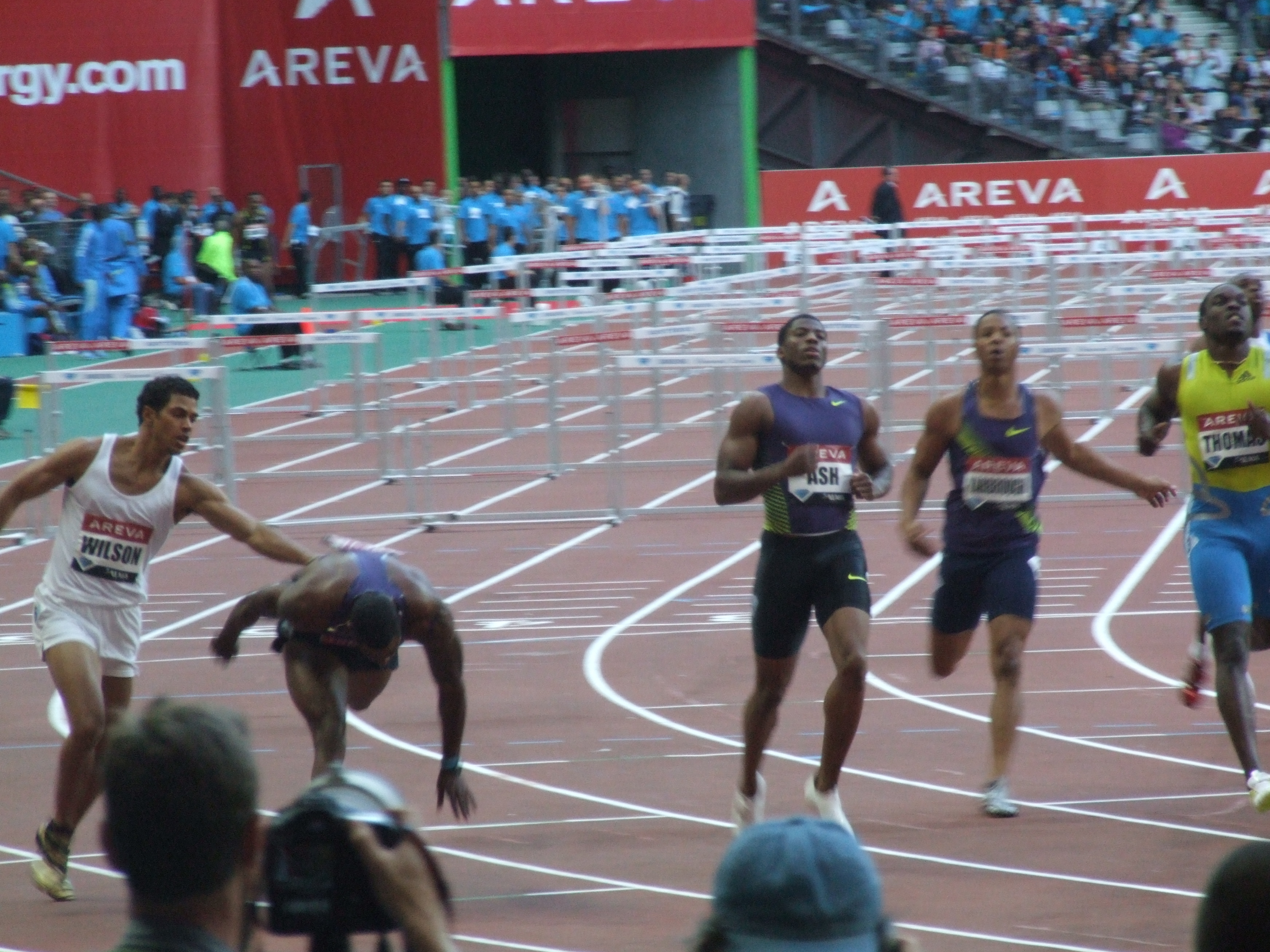 Finish of 110 m hurdles men during the 2010 Meeting Areva, the ninth stage of the 2010 Diamond League in Saint-Denis, Paris.